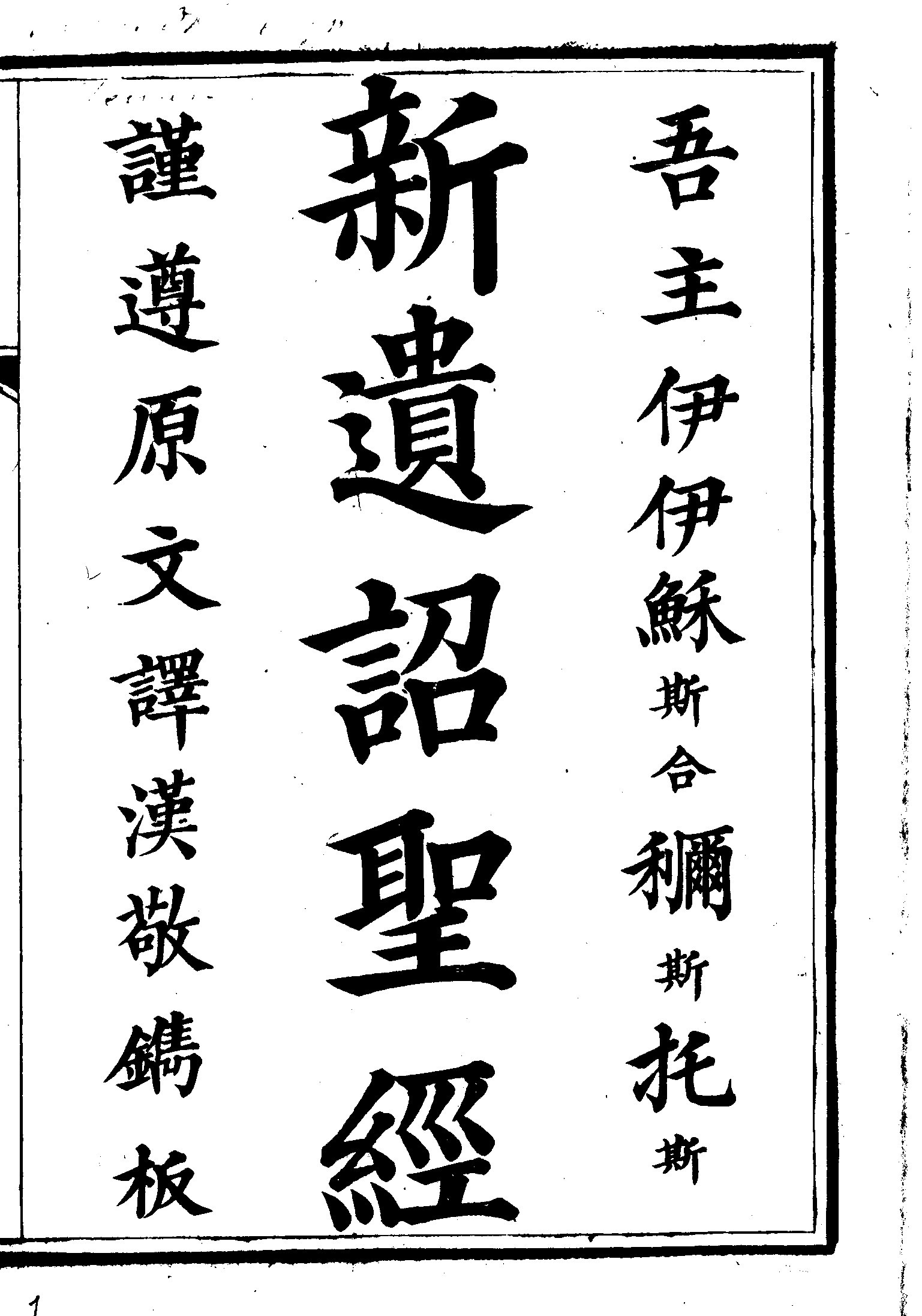 Chinese New Testament by Archimandrite Guri (Karpov): Our Lord Jesus Christ's New Testament Bible